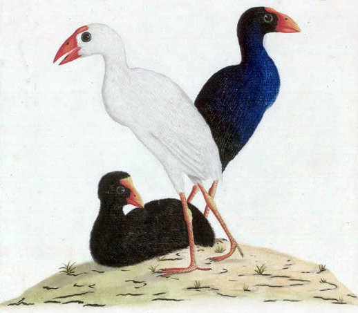 "Three stages of this Bird, taken at Lord Howes Island, before it arrives at maturity."